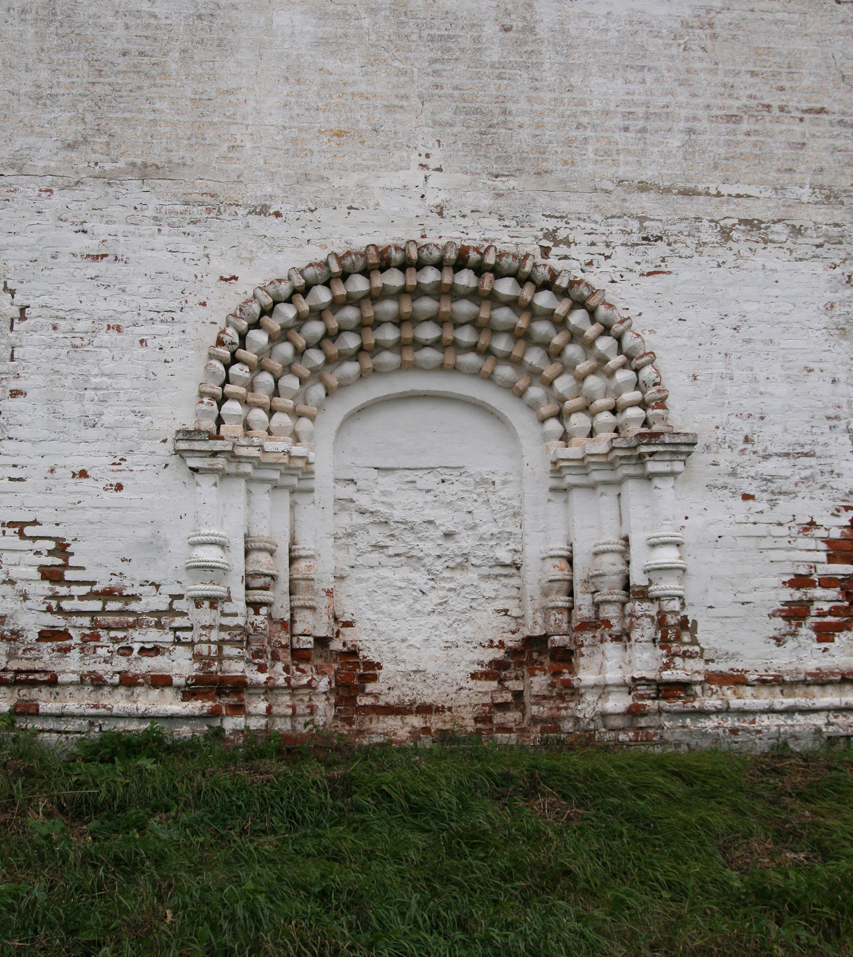 Church of the Theotokos of Tikhvin, Suzdal, XVII c